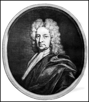 Portrait of Edmond Halley